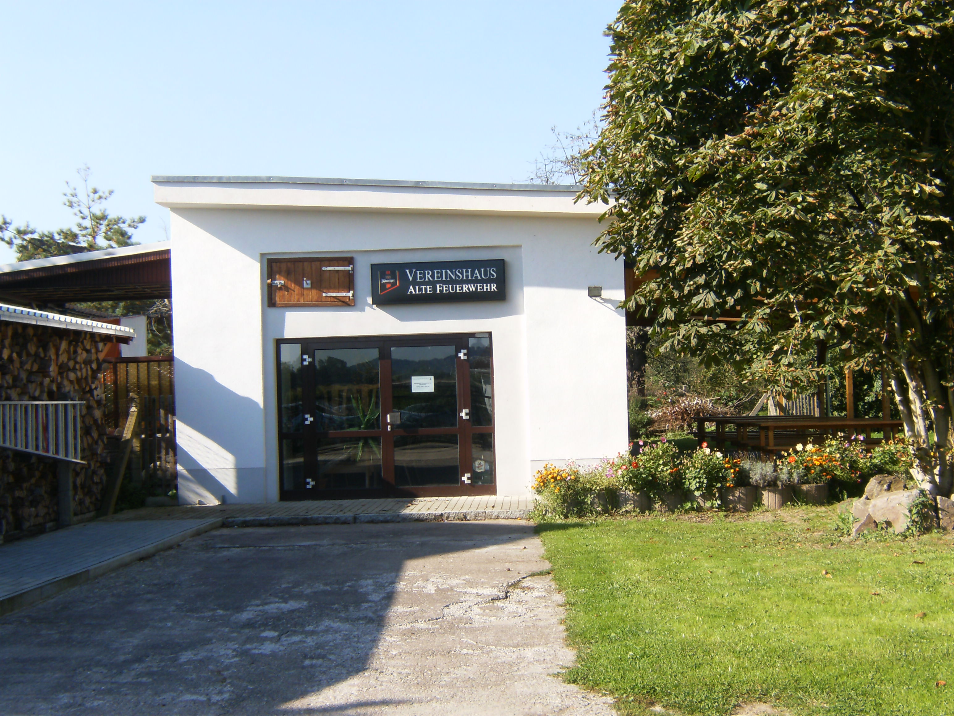 The community centre in the former fire station in Thieschitz, a district of Gera (Thuringia).